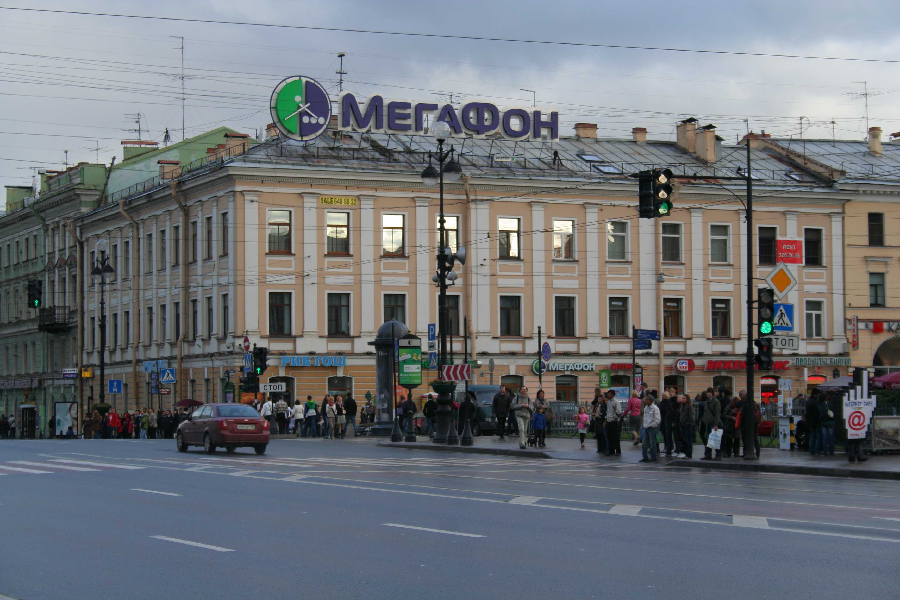 The Nevsky Prospekt in Saint Petersburg. House number 27 (at the corner).